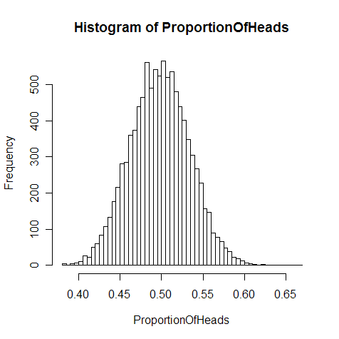 Proportion of heads on a fair coin, histogram plot 10000 trials, involving 200 tosses each. Totally wore out my table.